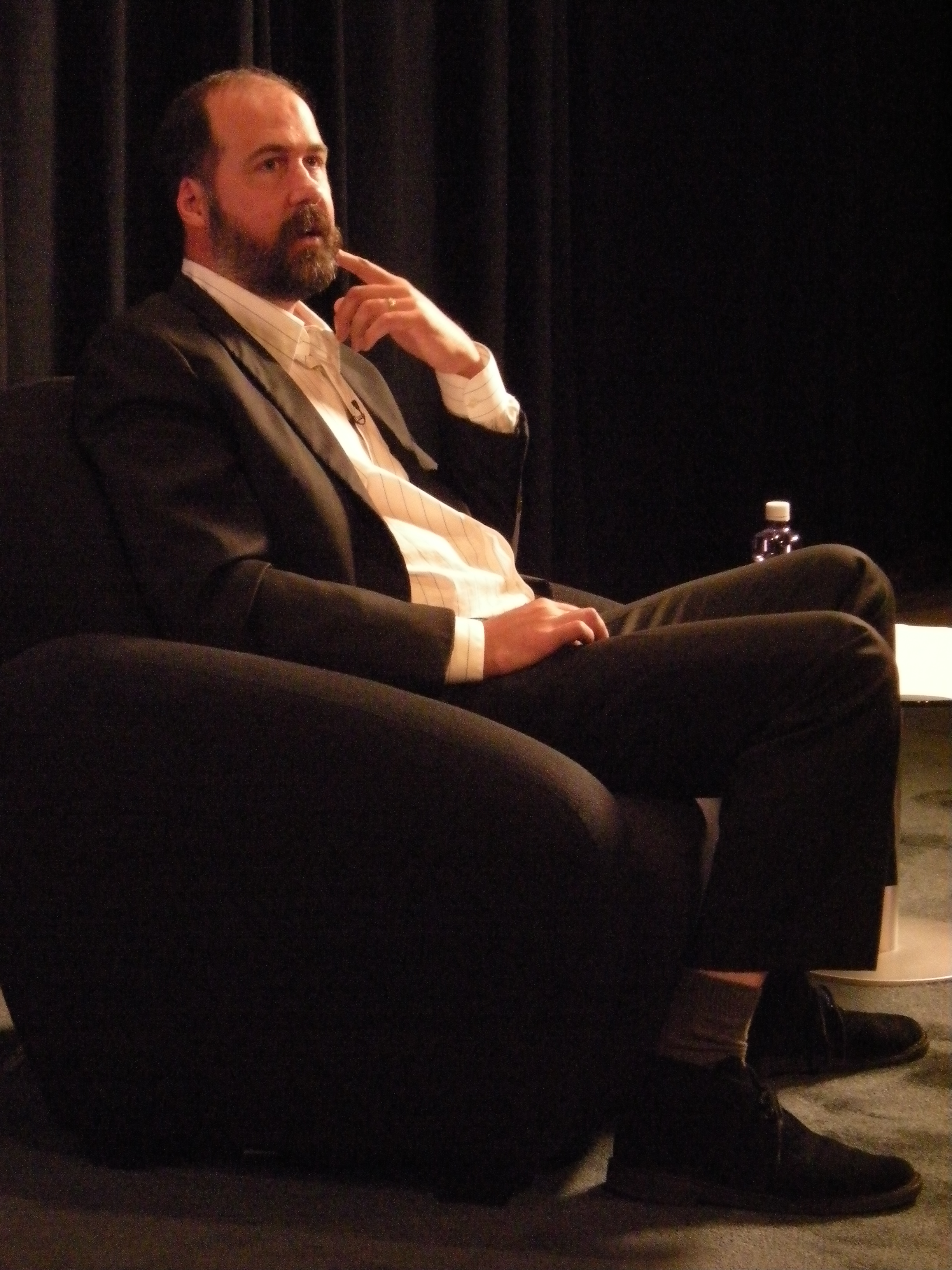 Krist Novoselic appearing as part of the Oral History Live series at Experience Music Project, Seattle, Washington.